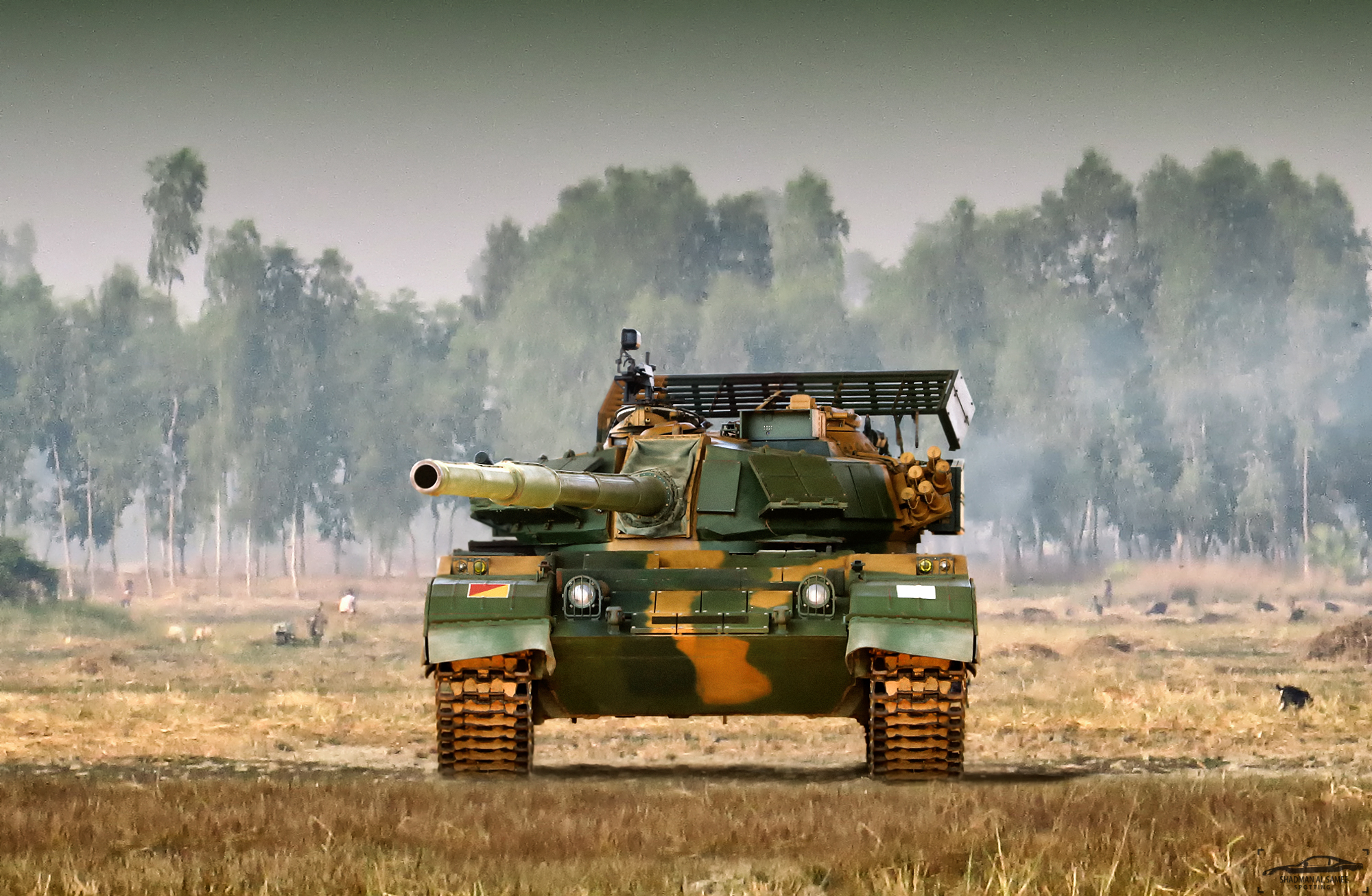 Undisclosed loc. 2018.